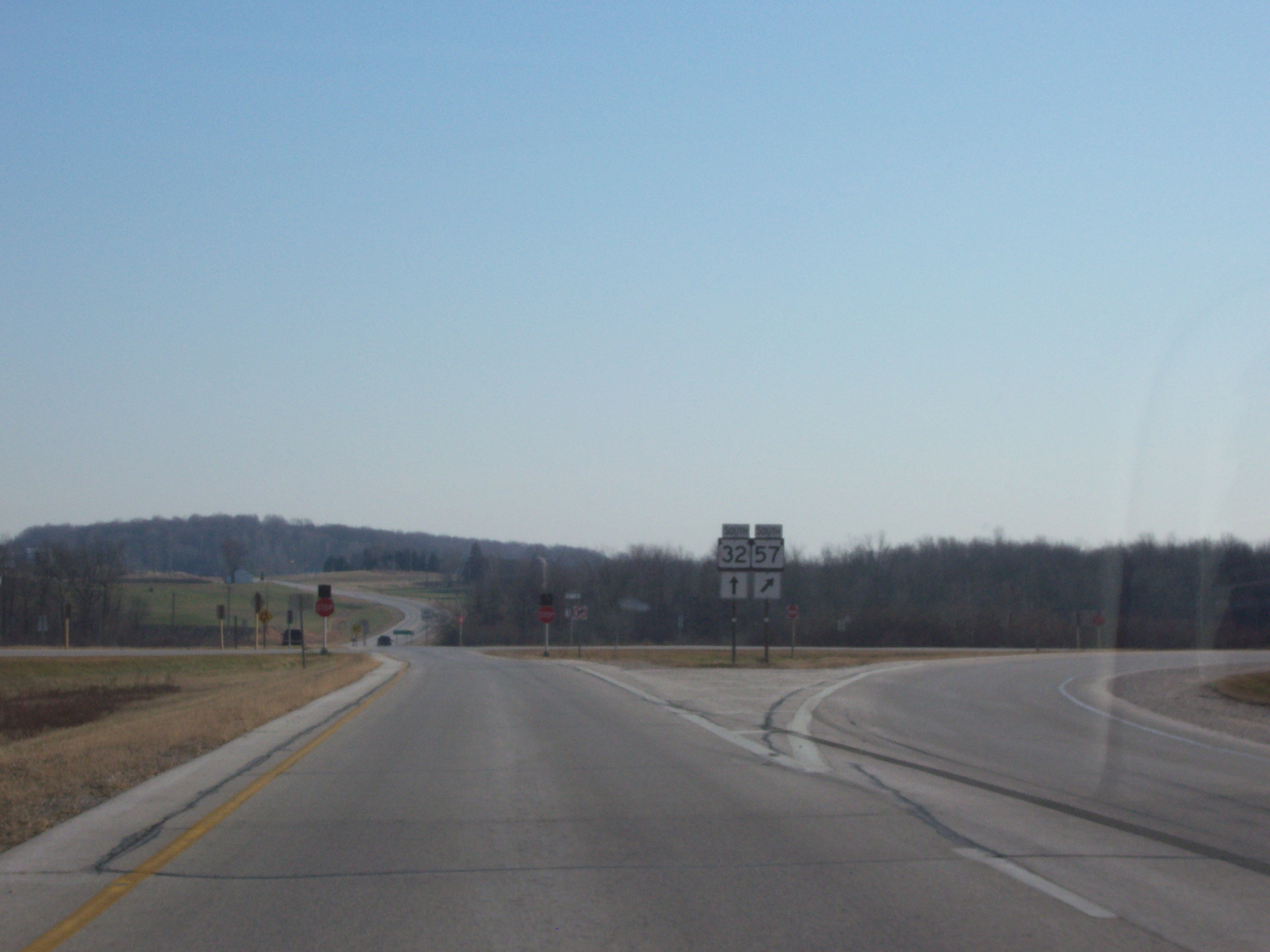 Category:Images of Wisconsin highways (Original text: Looking east at Wisconsin Highway 32's merger with Wisconsin Highway 57 in Millhome, Wisconsin, (near Kiel, Wisconsin).)